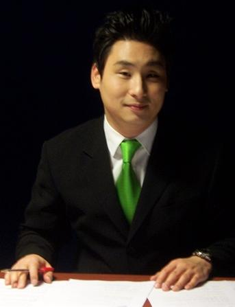 Samuel H. Kim, announcer for Anyang Halla Hockey Club